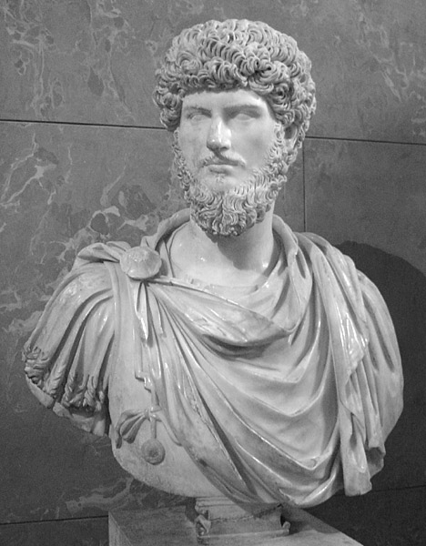 Bust of Lucius Verus in the Louvre (Ma 1101), Paris.